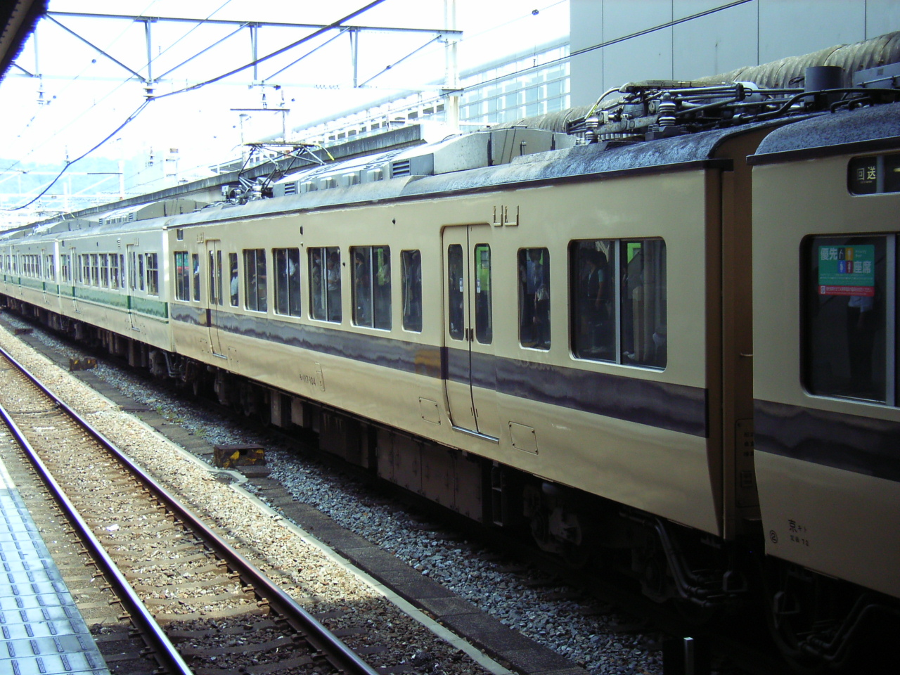 JNR117-100 train with cold weather resistant pantograph at Kyoto Station on May 23, 2007